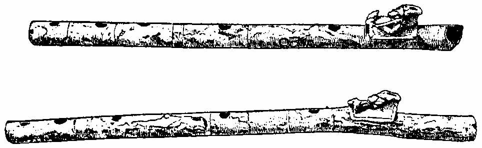 Drawing of a plagiaulos (a type of aulos — a musical instrument of ancient Greece).